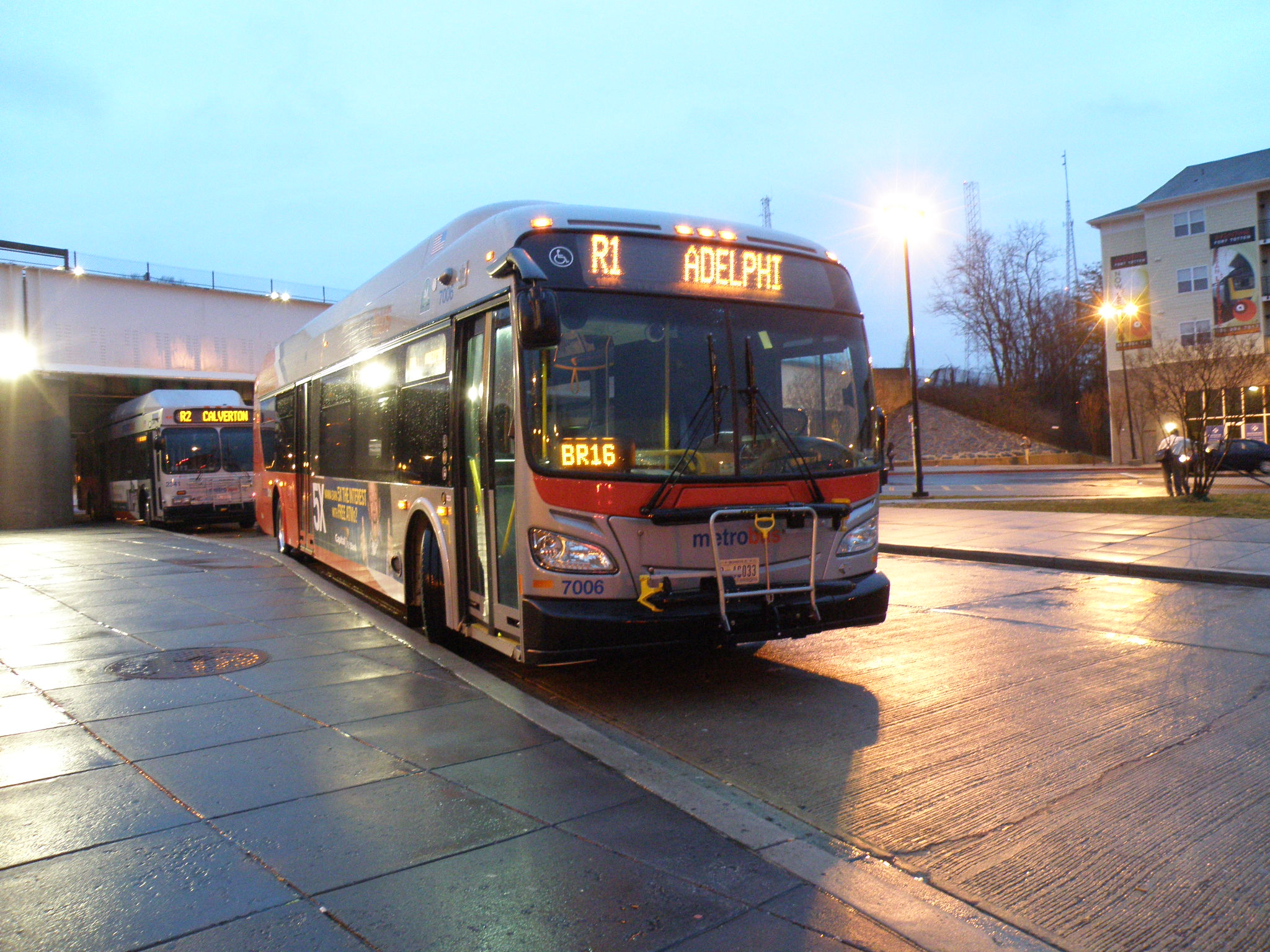 New Flyer Xcelsior diesel-electic hybrid bus for Washington D.C.